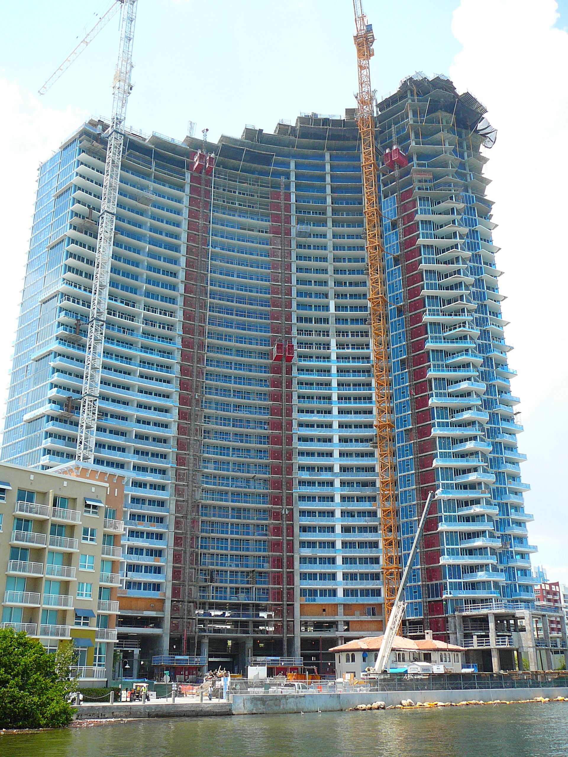 Digital photo taken by Marc Averette. View of the Paramount Bay condominium in downtown Miami, FL. 5/10/2008